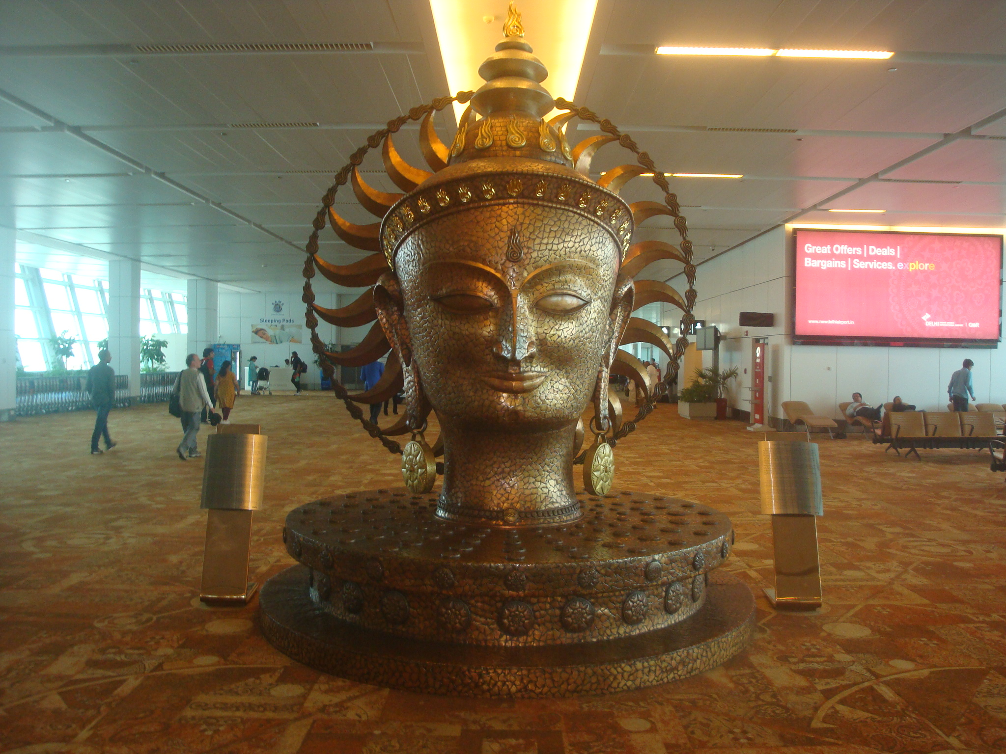 "Statue of The Sun God" / "The head of Surya", Terminal 3, Indira Gandhi International Airport, New Delhi, India. A bronze sculpture of the Sun God Surya.